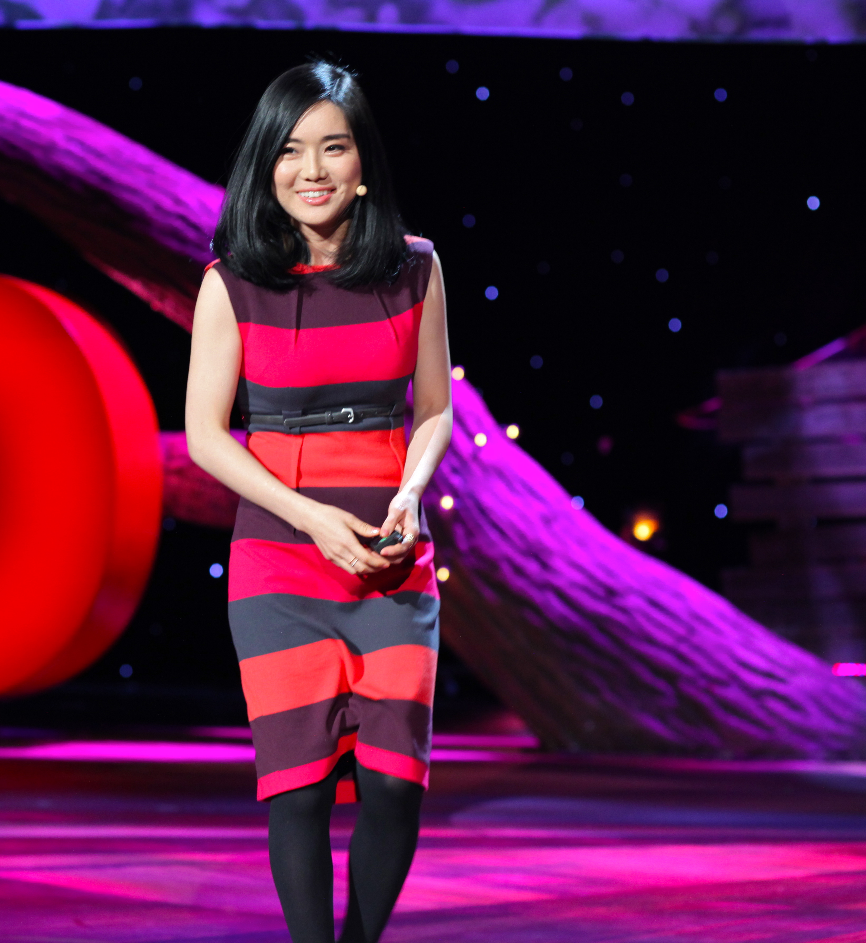 To have made it, and be fluent in English is quite rare. Here is Hyeonseo Lee, facing the standing ovation to her poignant TED Talk. She saw her first public execution at age 7. Looking across the border, she wondered why "Everything around me was completely dark at night, except for the sea of lights in China just across the river from my home. I always wondered why they had light and we didn't." Her story resonated with what my parents experienced separately escaping the Russian occupation of Estonia at the end of WW II.